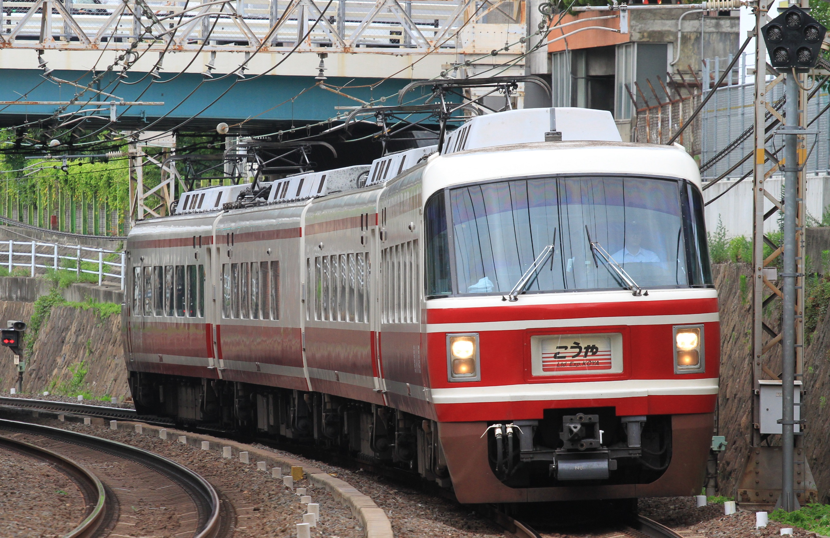 A Nankai Electric Railway 30000 series EMU on a Koya limited express service